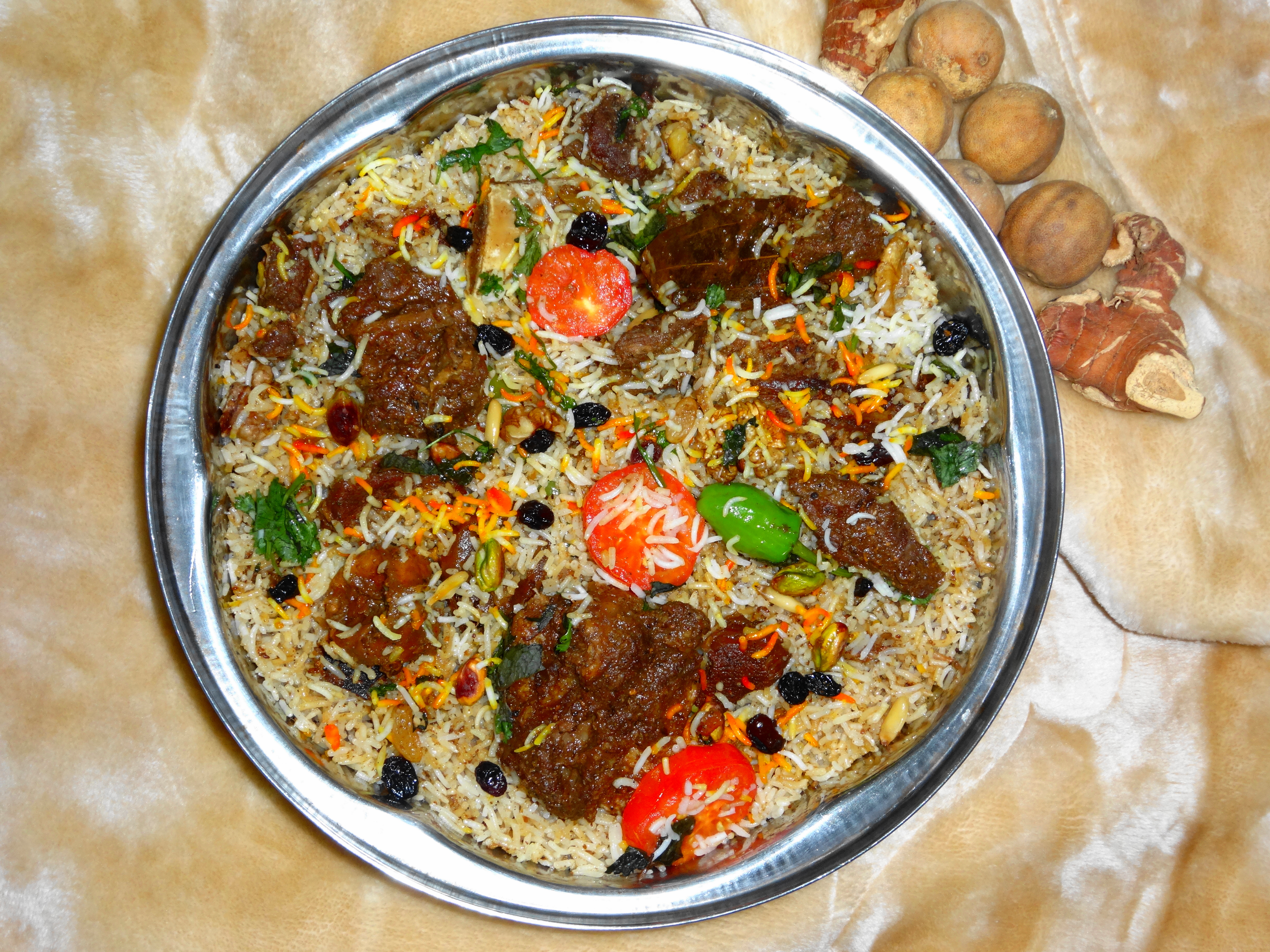 برياني حاشي، الرز البرياني مع لحم الحاشي، Camel Meat Biryani, اونٹ کے گوشت کی بریانی, Arabian Camel Meat Biryani